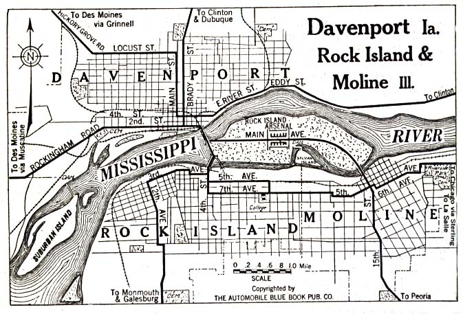 1919 map of the Quad Cities from the Automobile Blue Book.